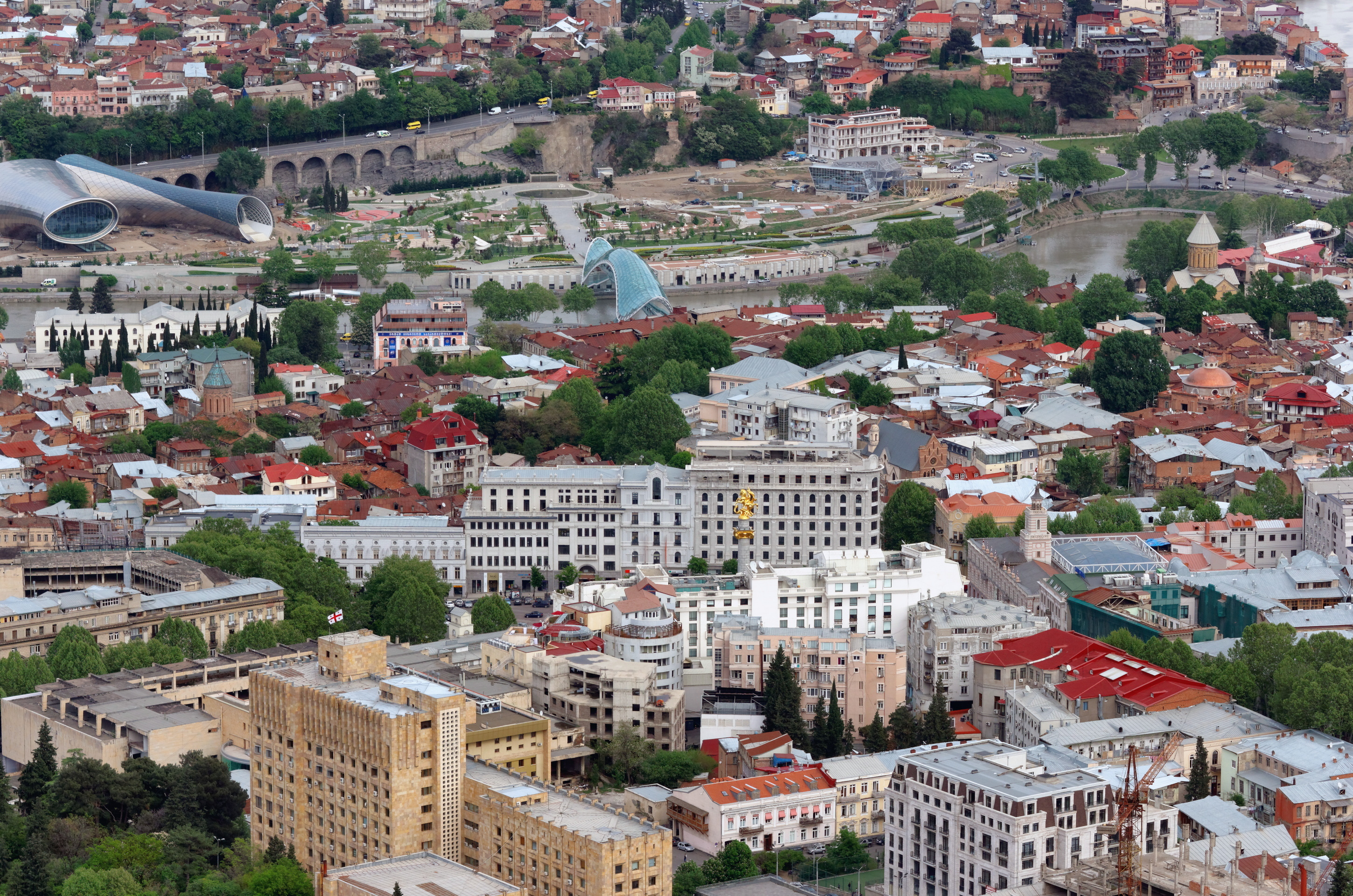 Tbilisi